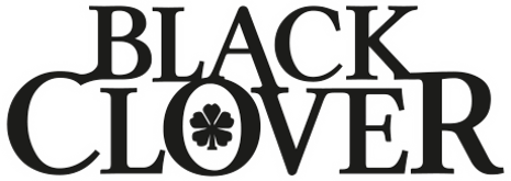 Logo of Black Clover.